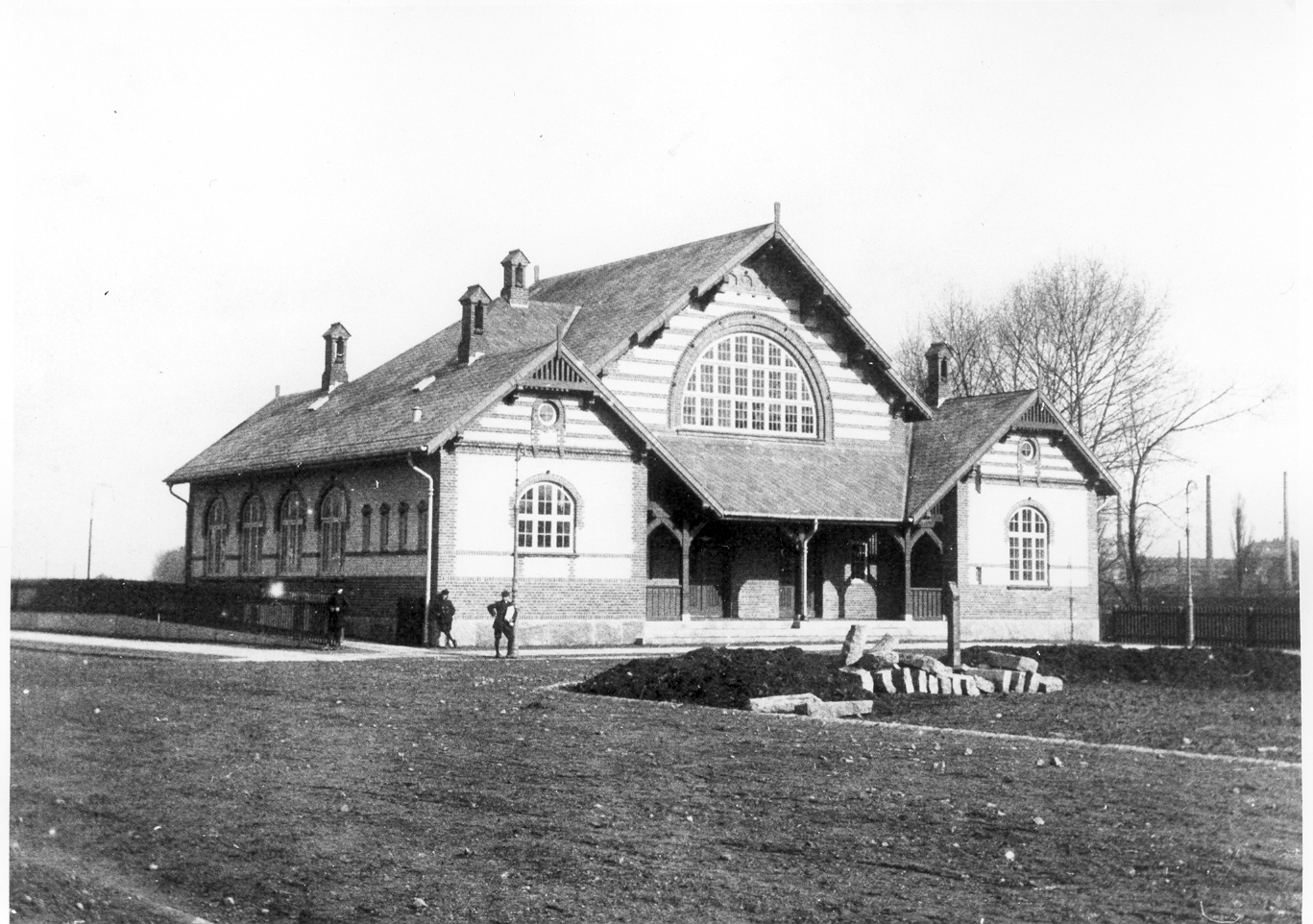 Lygten Station in the Bispebjerg district of Copenhagen, Denmark, shortly after its Construction in 1906.